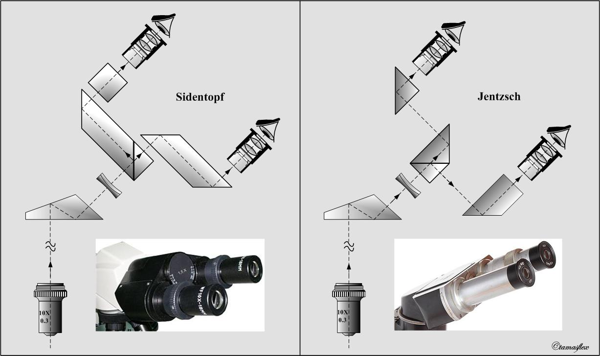 Siedentopf / Jentzsch microscope binocular optical schematics.